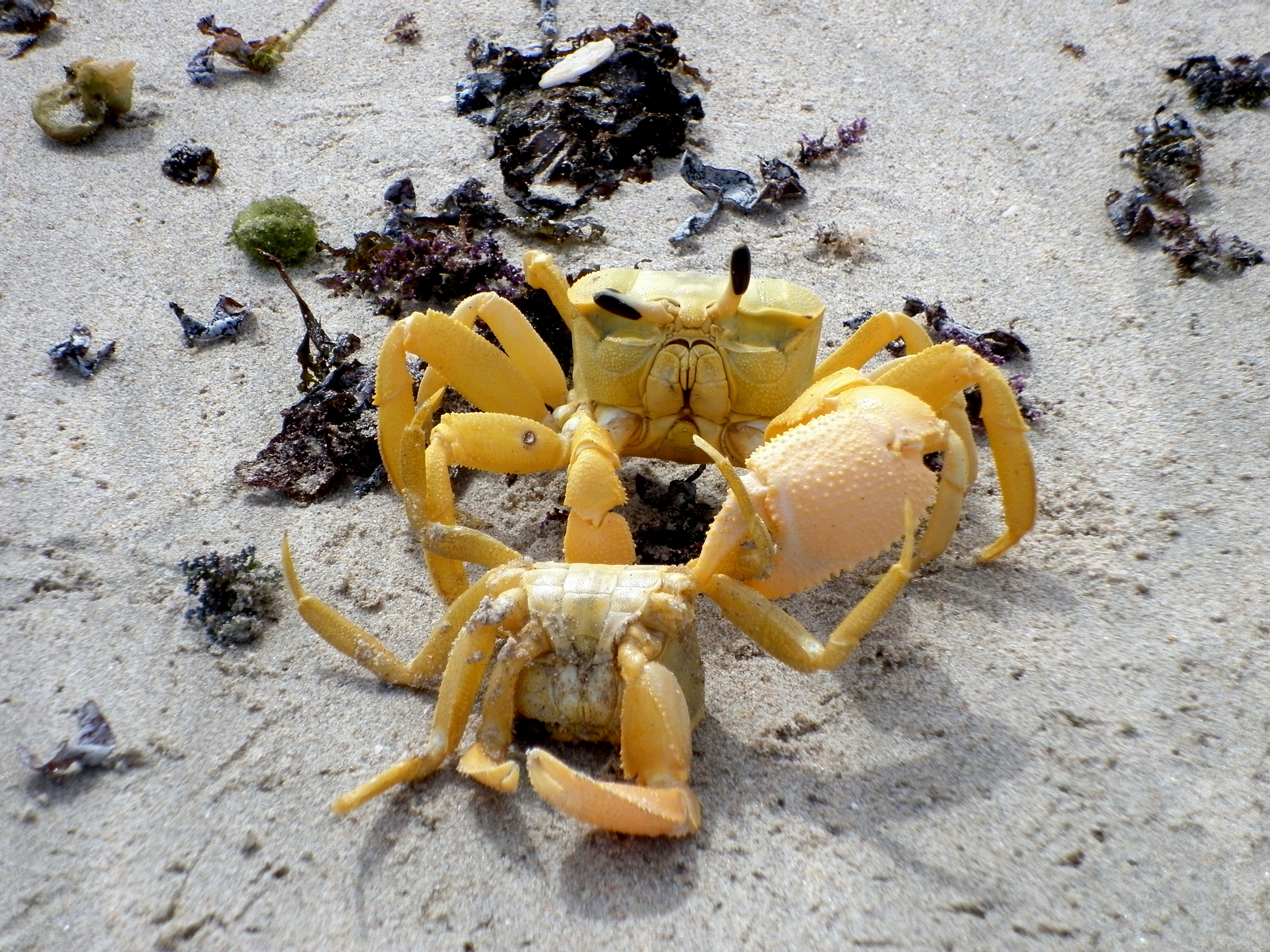 Ghost crab (Ocypode convexa), Gnaraloo Bay Rookery